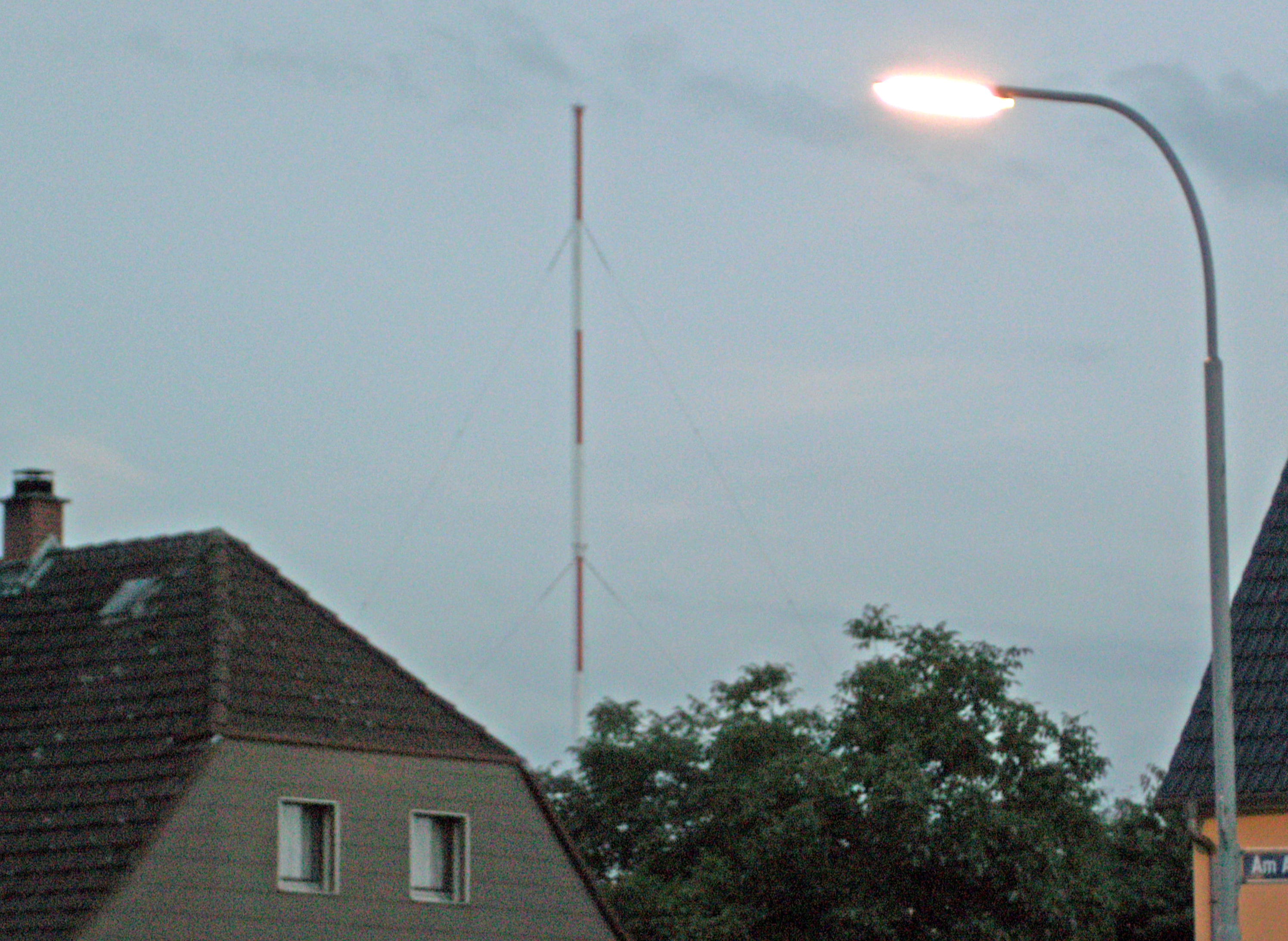 Grafenwöhr AFN AM broadcasting mast